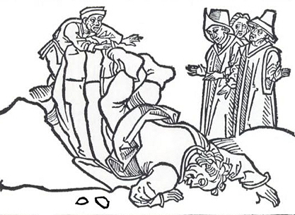 A woodcut from the 1489 Spanish edition of La vida del Ysopet con sus fabulas historiadas depicts the death of Aesop, thrown from a rock by the people of Delphi.